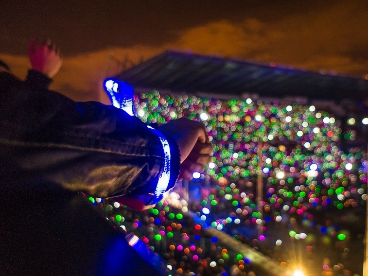 View of the stage and crowd during Coldplay's Mylo Xyloto Tour at the Vicente Calderón Stadium, Madrid, Spain.